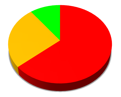 Expressed as a pie chart in the Yamaguchi gubernatorial election in 2014, the number of votes for each candidate. explanatory notes ■ - Tsugumasa Muraoka ■ - Tsutomu Takamura ■ - Naoko Fujii